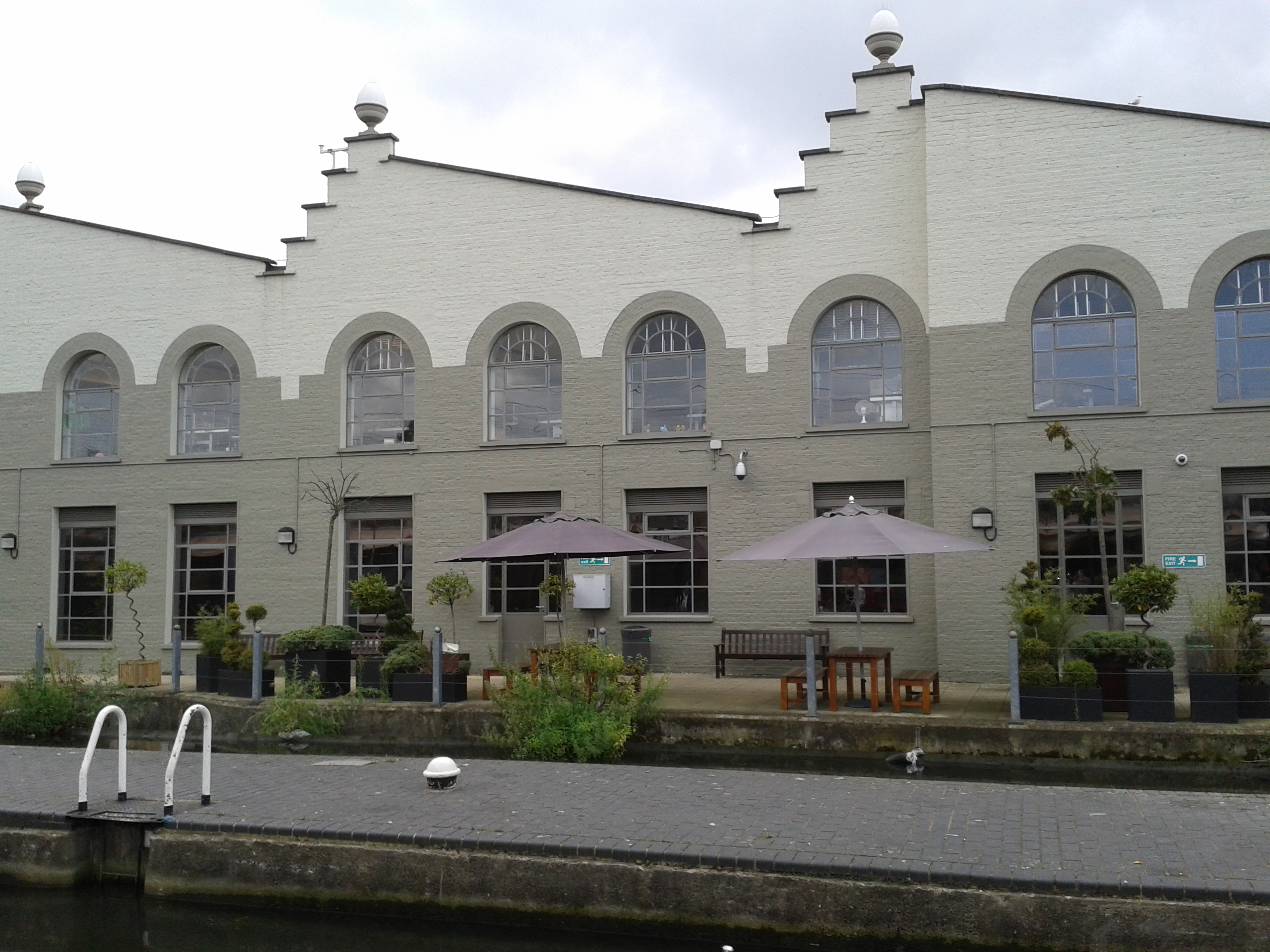 The rear of the Viacom Media Networks building in Hawley Crescent, London. The building was famously occupied by TV-am between 1982 and 1992 and was dubbed "Eggcup House". It was renovated extensively at the front but the rear of the building, facing the Regents Canal, was left unchanged aside from repainting.